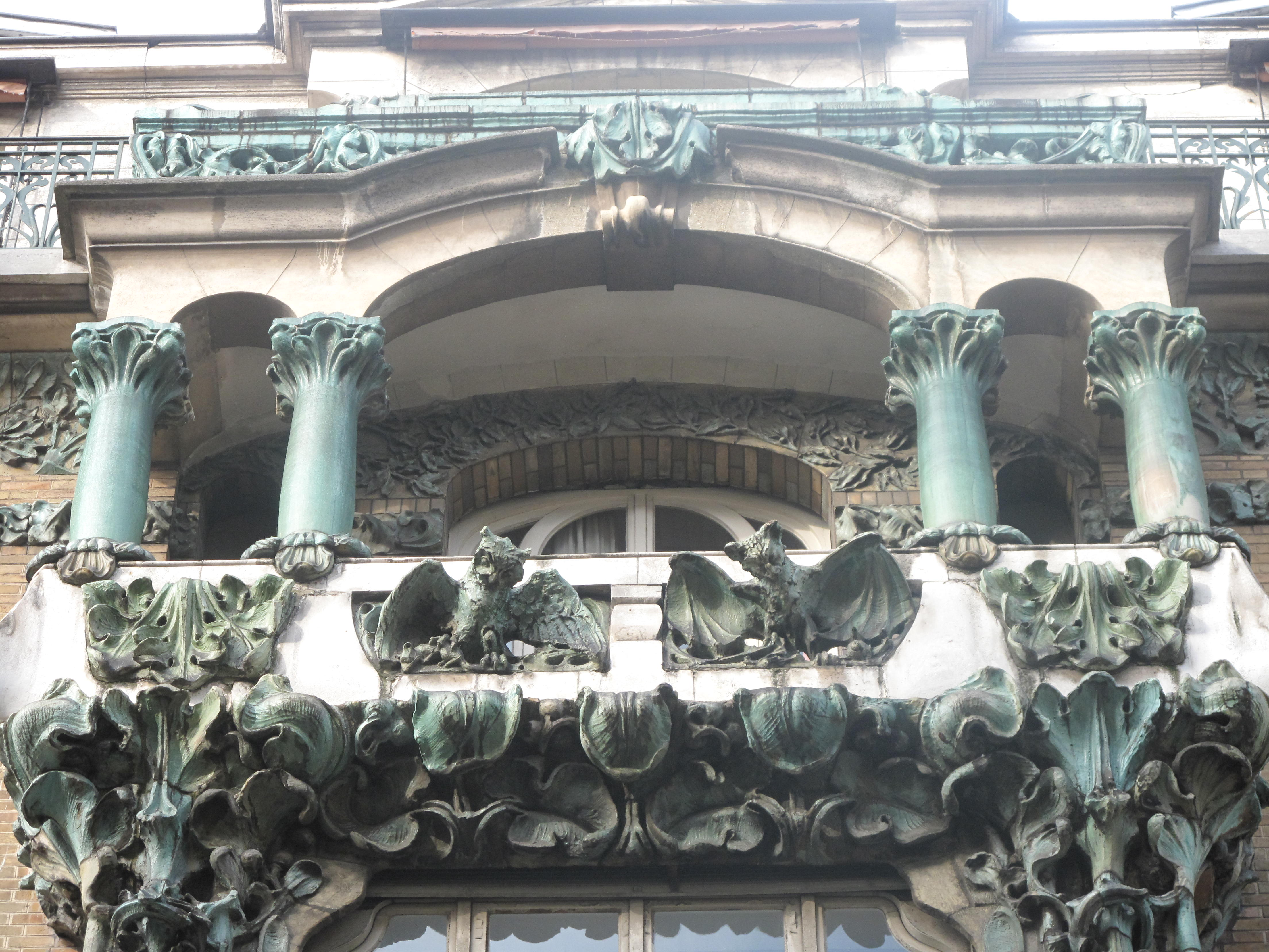 Close-up of the building in Art Nouveau style : 14 Rue d'Abbeville, Paris 10th arr.